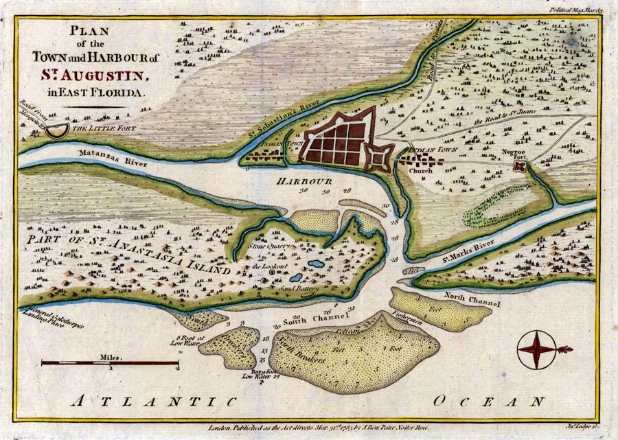 Plan of the town and harbour of St. Augustin in East Florida